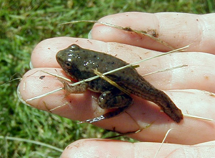 Juvenile frog with tail